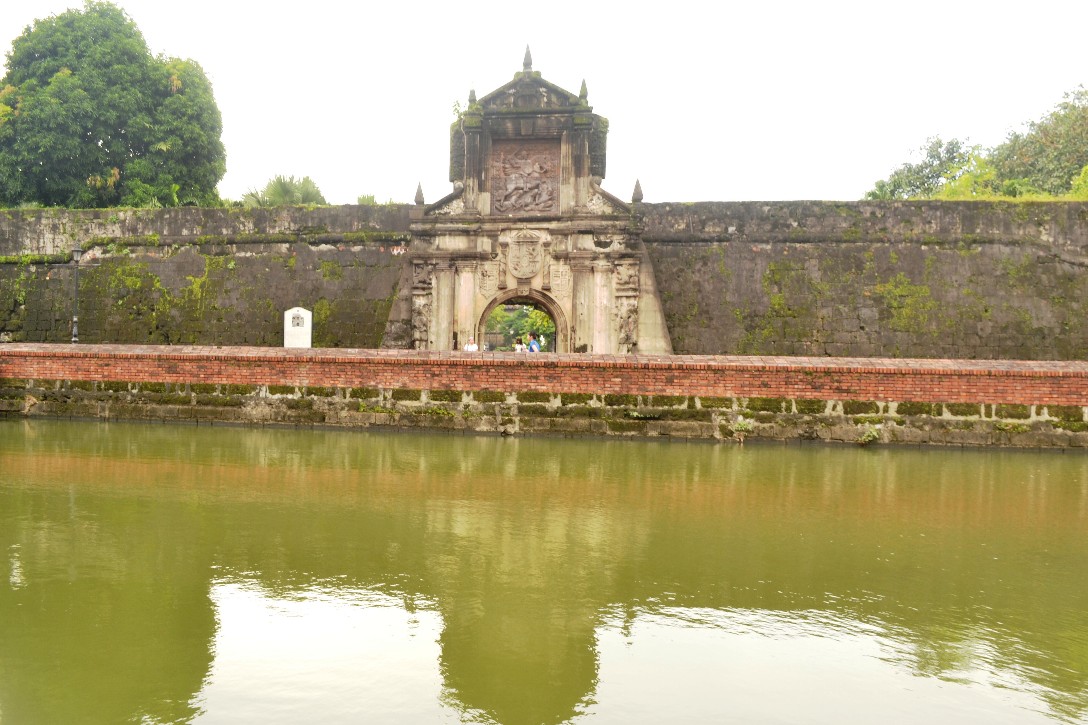 Fort Santiago, named in honor of St. James the Great, is a citadel built by Spanish conquistador Miguel Lopez de Legaspi to protect the then newly-established city of Manila. The fortress is part of a larger fortified area of the city of Manila called Intramuros.